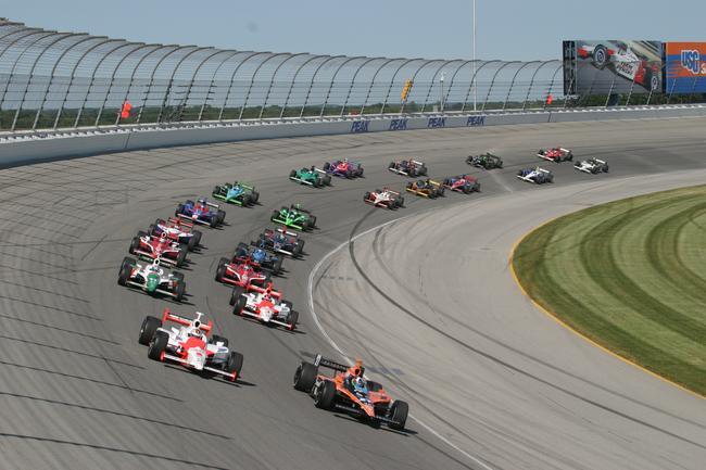 Chicagoland Speedway outside of Chicago in Joliet, Illinois, USA.